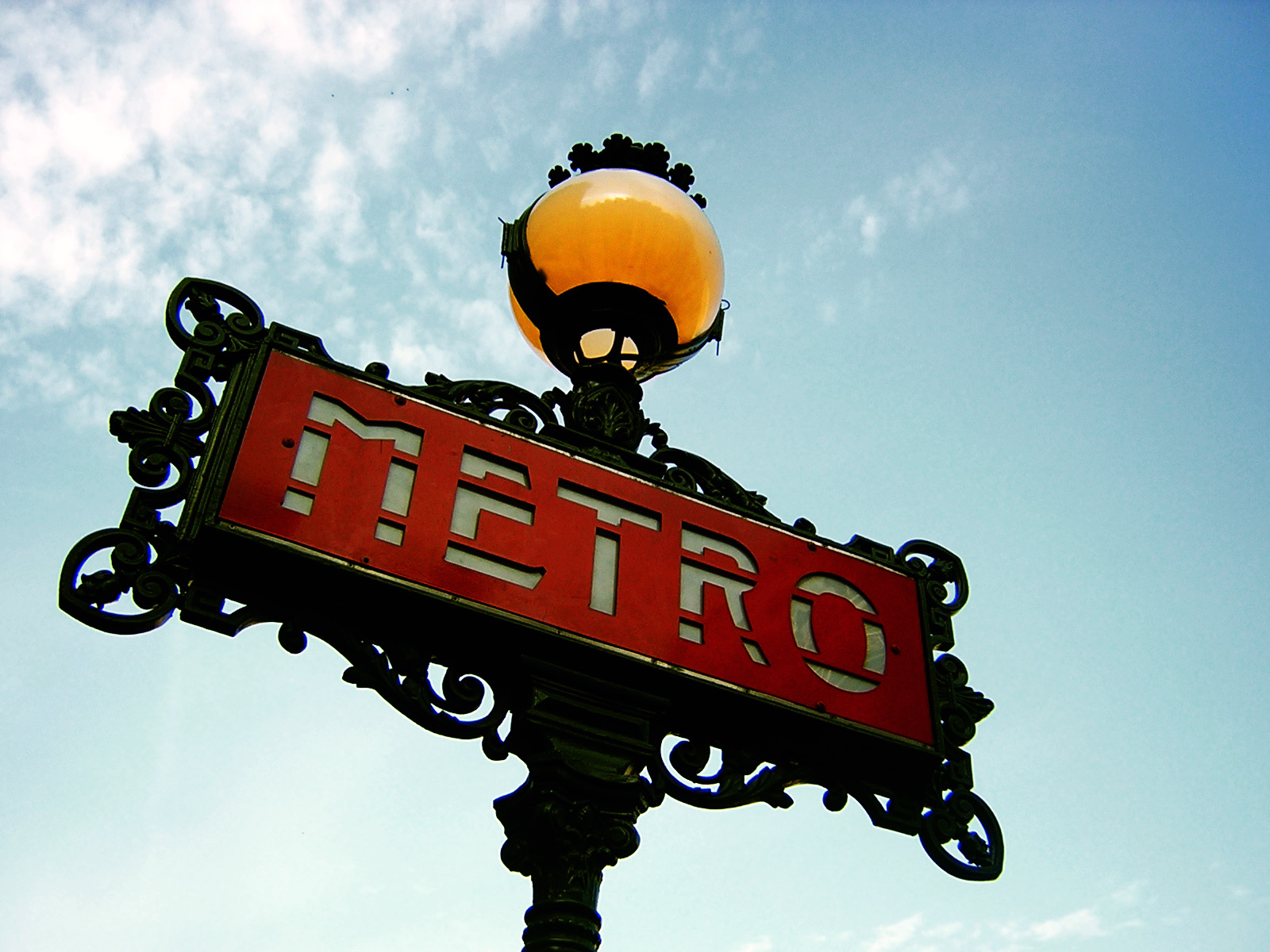 A sign of Paris Metro. A 1909 Val d′Osne candelabria, they are recognizable by the elaborate ironwork edging on the central panel and the rather square stencil-form of lettering of the word METRO.